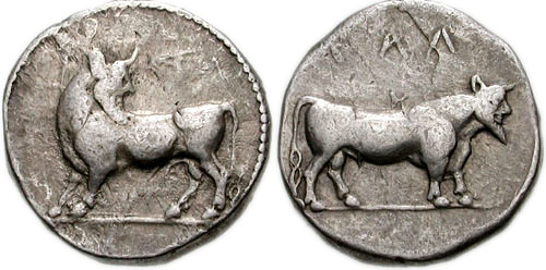 Bruttium, Laus (or Laos). Circa 490/80-470 BC. AR Nomos (17mm, 8.07 g, 2h). LA-S (retrograde), man-headed bull standing left, head reverted LAS (retrograde), man-headed bull standing right. Sternberg 10 (V8/R9); SNG ANS 135 (same obv. die); SNG Copenhagen 1146 (same dies); HN Italy 2275; Pozzi 154 (same dies)